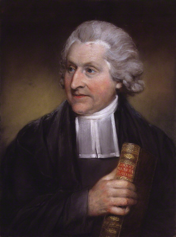 Pastel portrait of Colin Milne (c.1743–1815) was a Scottish priest of the Church of England and botanist.